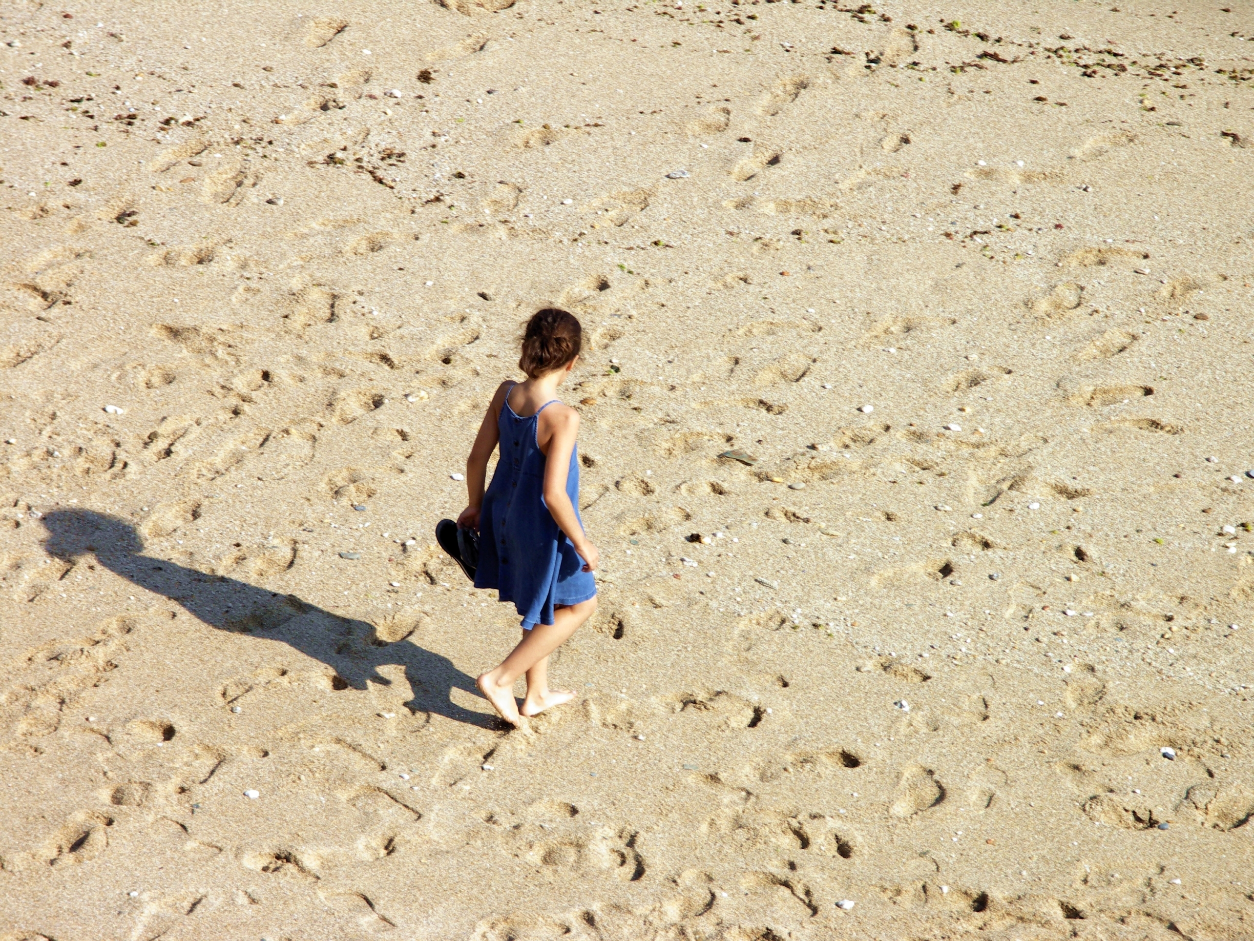 Girl walking in a beach. Porto Covo, Portugal.